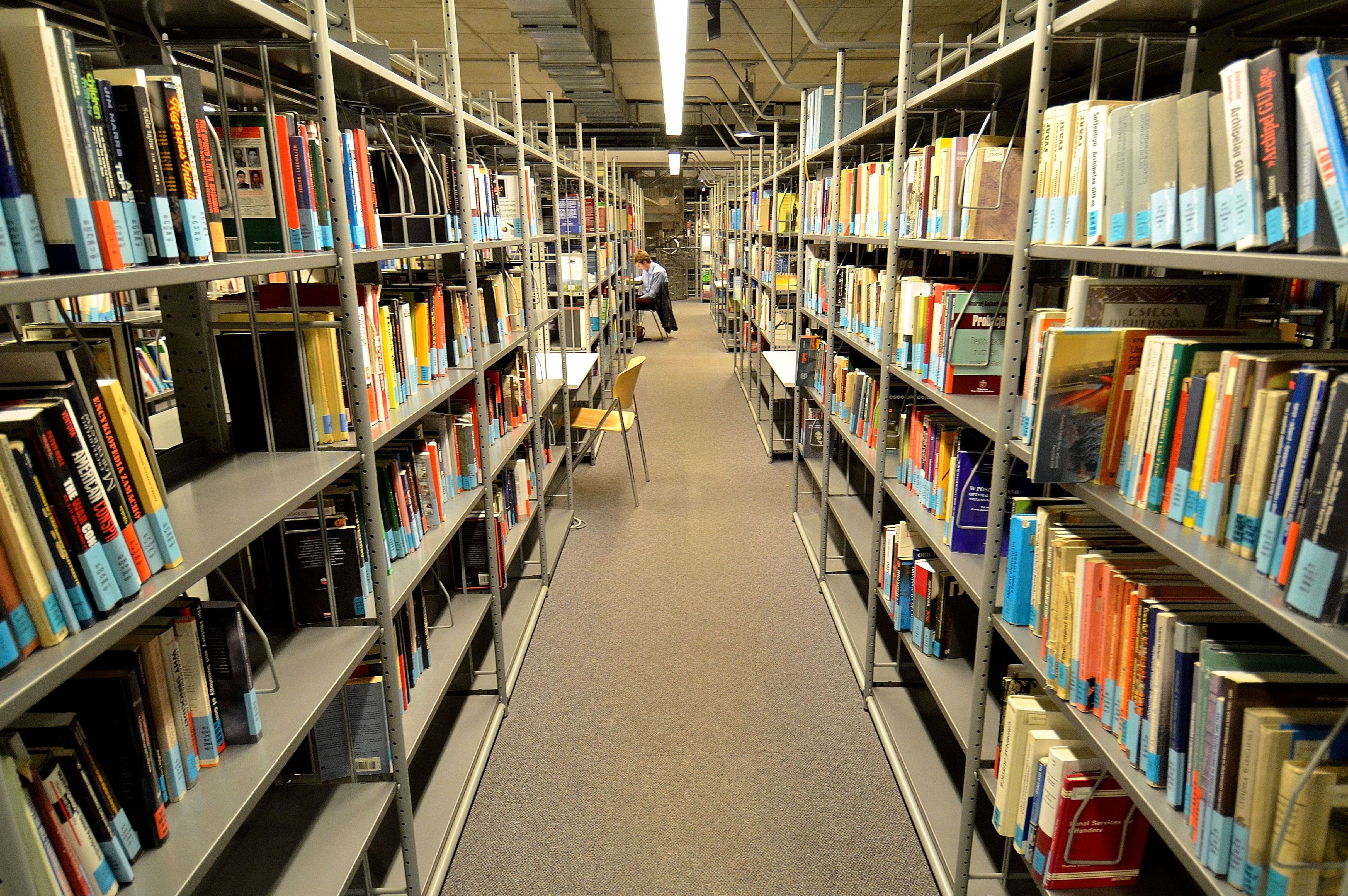 University Library in Warsaw